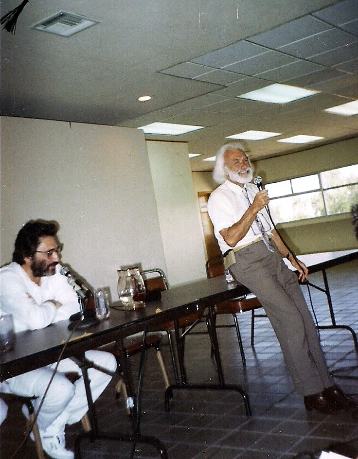 Dr. Karl Pribram as a visiting lecturer at the University Theatre, UABC Mexicali, Baja California, Mexico, invited by Rubén Feldman Gonzalez. May 1989.